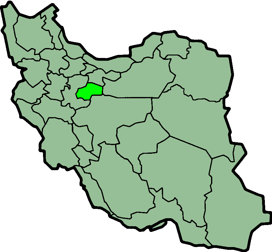 Province of Qom, Iran